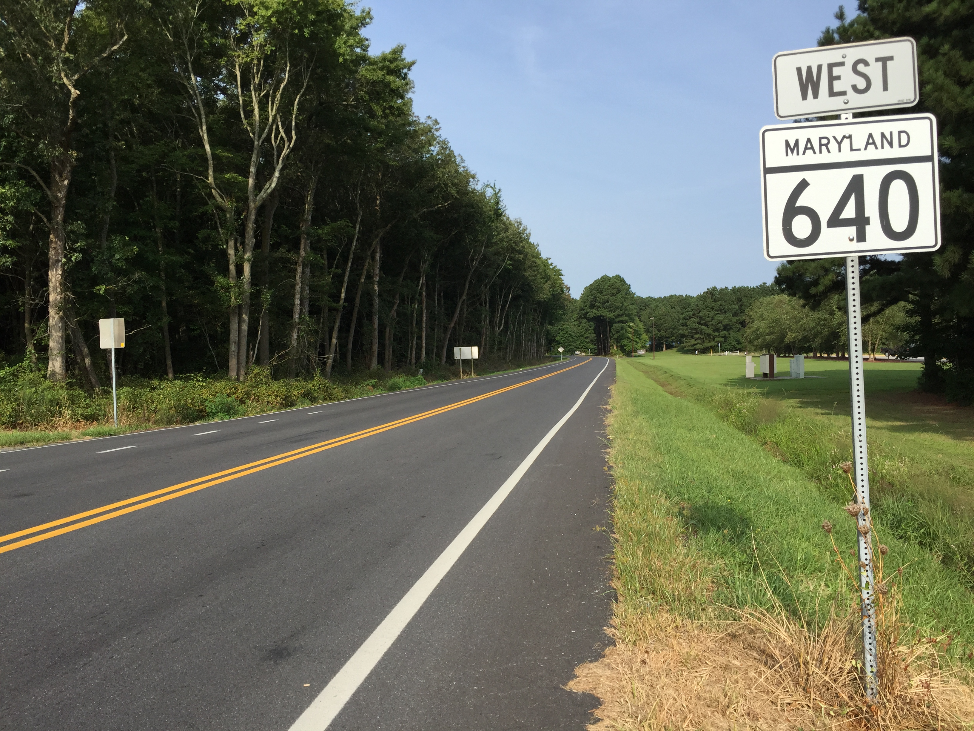 View west along Maryland State Route 640 (Revells Neck Road) at U.S. Route 13 (Ocean Highway) in Kings Creek, Somerset County, Maryland